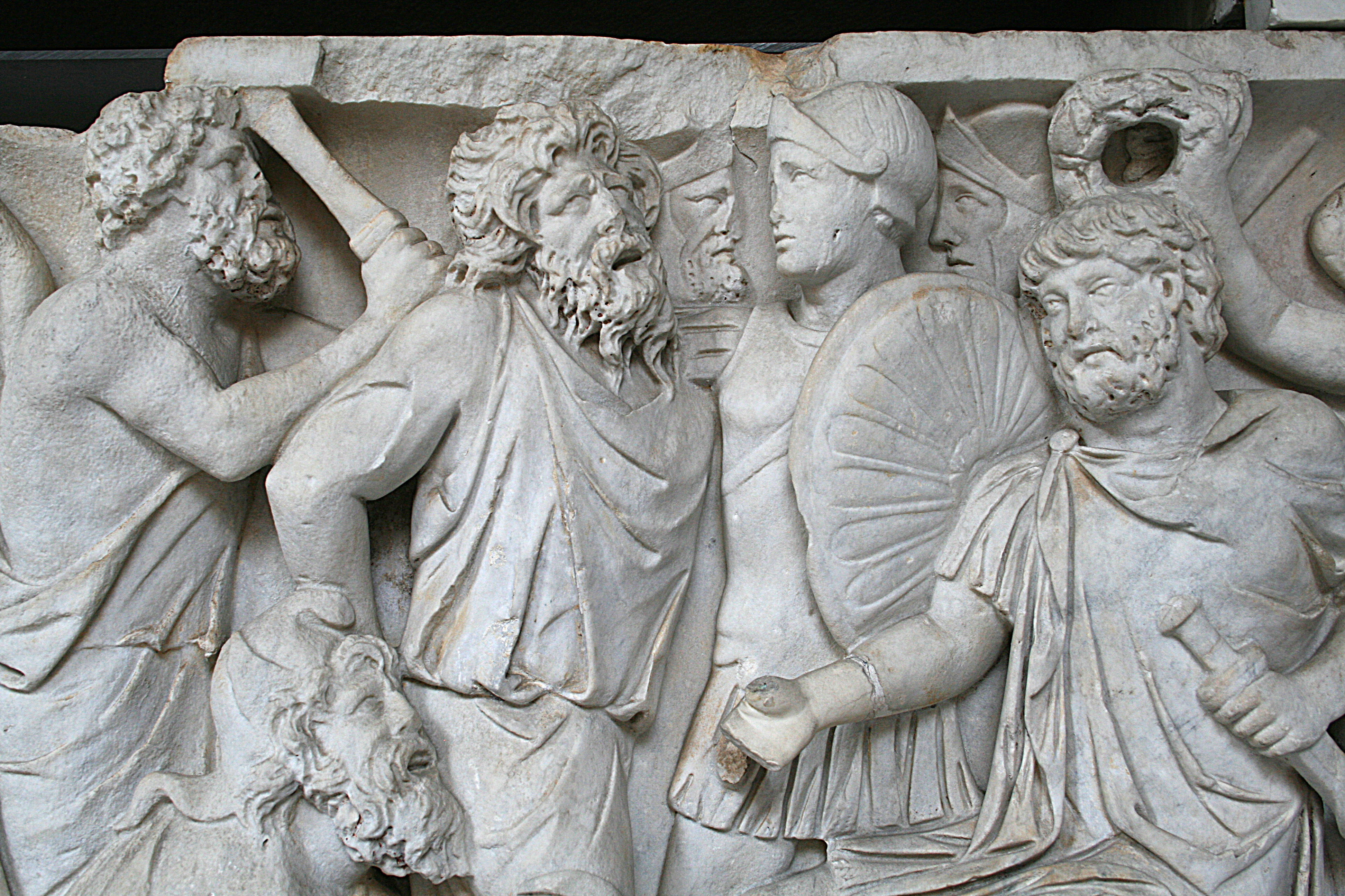 Detail of the front panel of the roman sarcophagus adorned with a relief representing the submission of the Sarmatians . - Cortile Ottagono, Museo Pio-Clementino of the Vatican Museums.